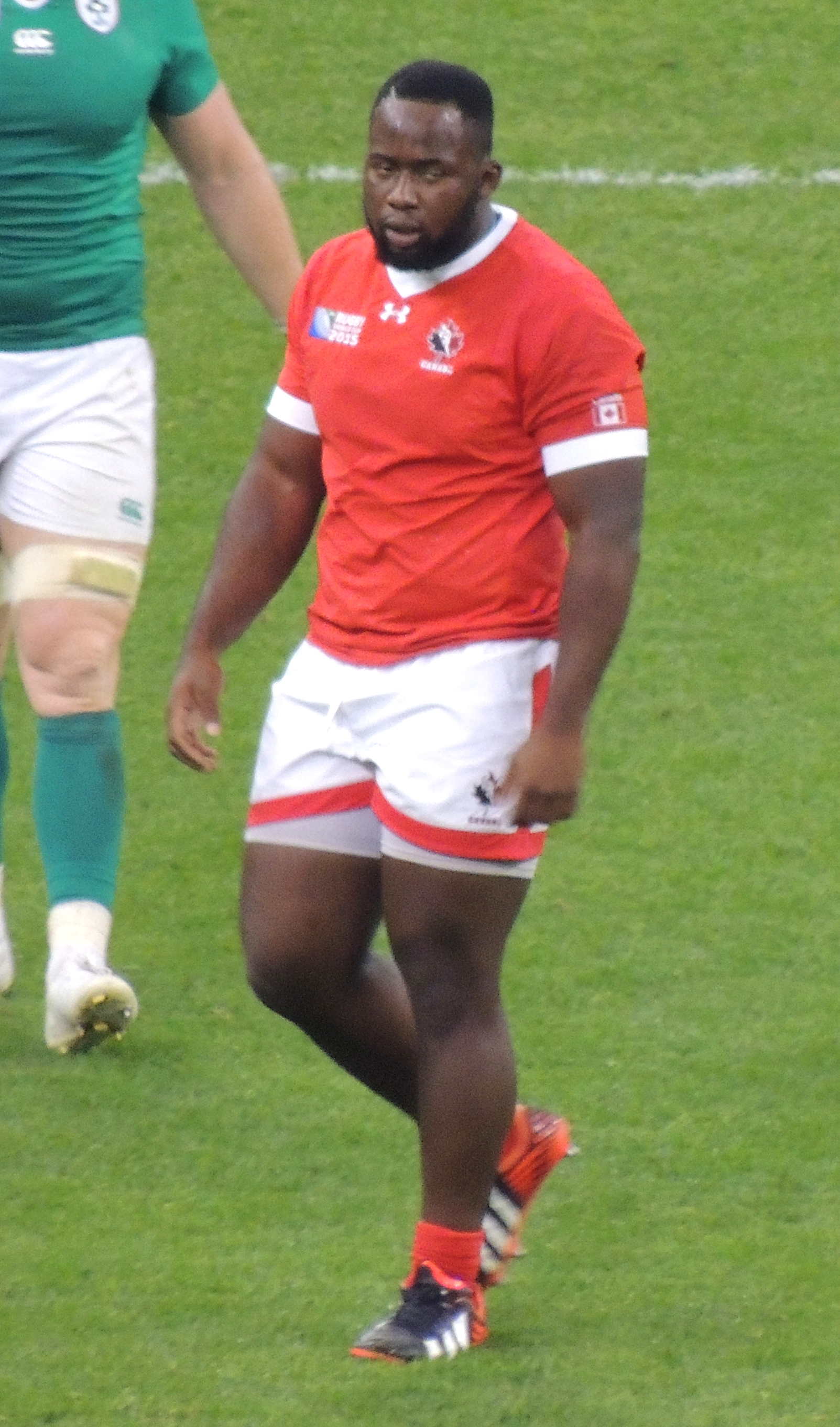 Canadian rugby union player Djustice Sears-Duru playing in 2015 Rugby World Cup game Ireland vs Canada at Millennium Stadium in Cardiff.